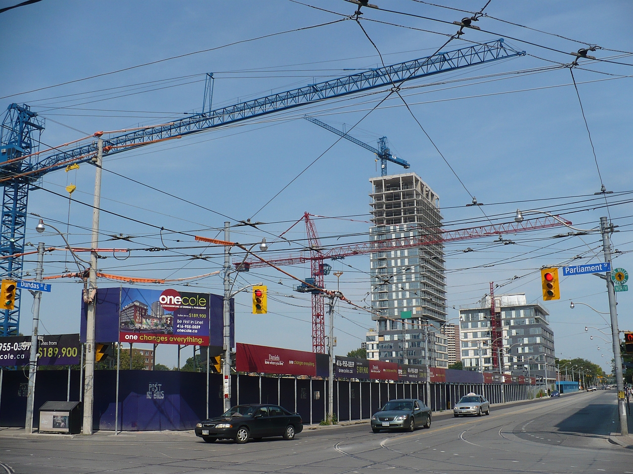 Redevelopment of Regent Park in Toronto